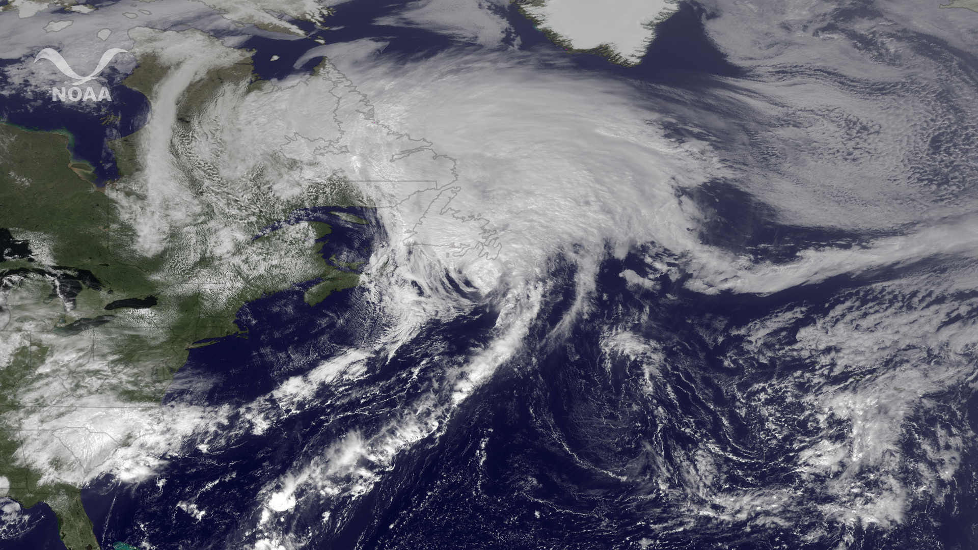 The center of Maria is moving rapidly at 45-50 knots across the Avalon Peninsula in Newfoundland and into colder water, beginning its extratropical transition. Because of the extreme forward motion of the storm, weakening will be slower than usual. Hurricane winds are likely only occurring to the southeast of the center and may remain offshore. This image is from GOES East at 1615Z on September 16, 2011.